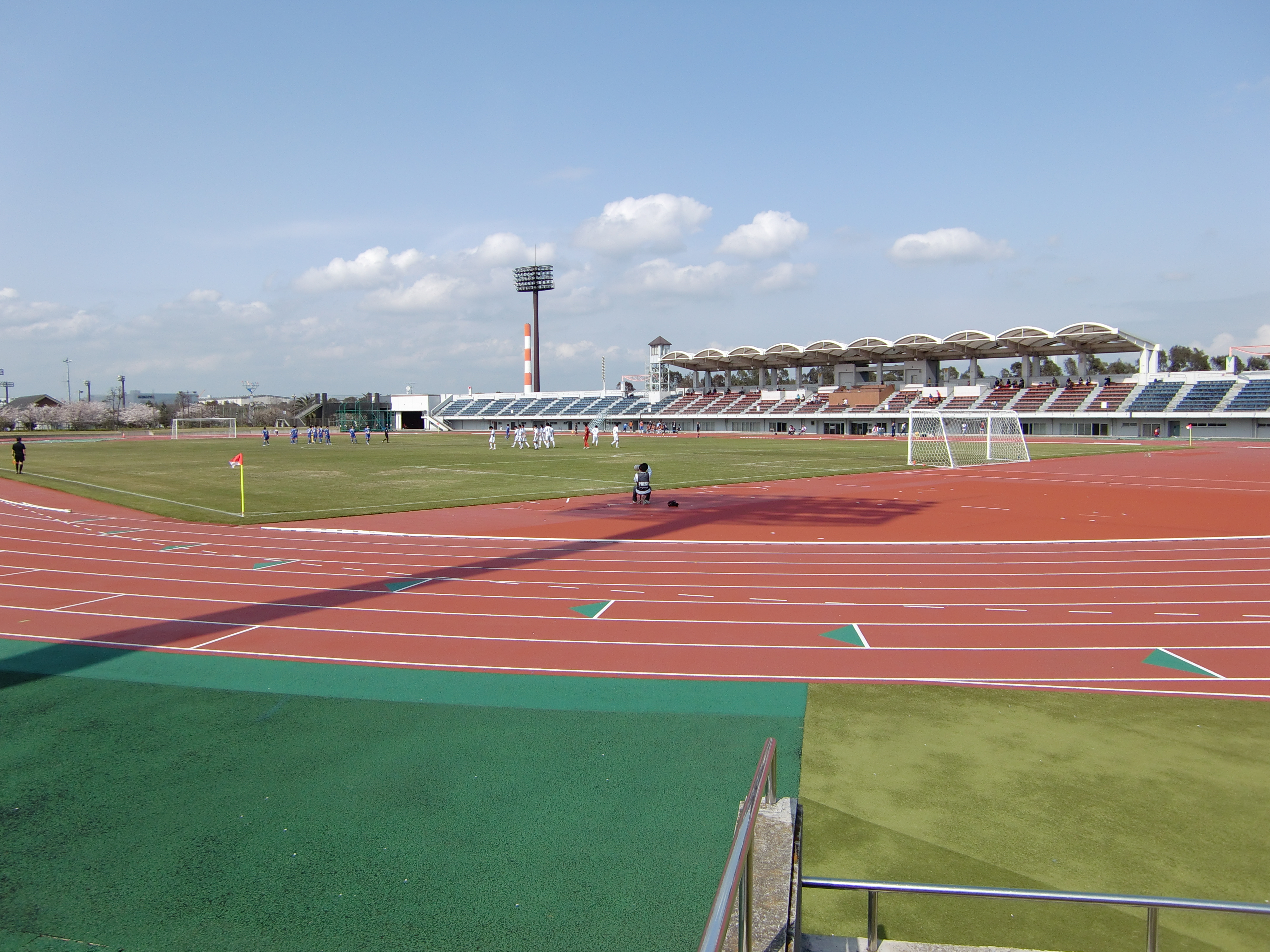 Yumenoshima Stadium